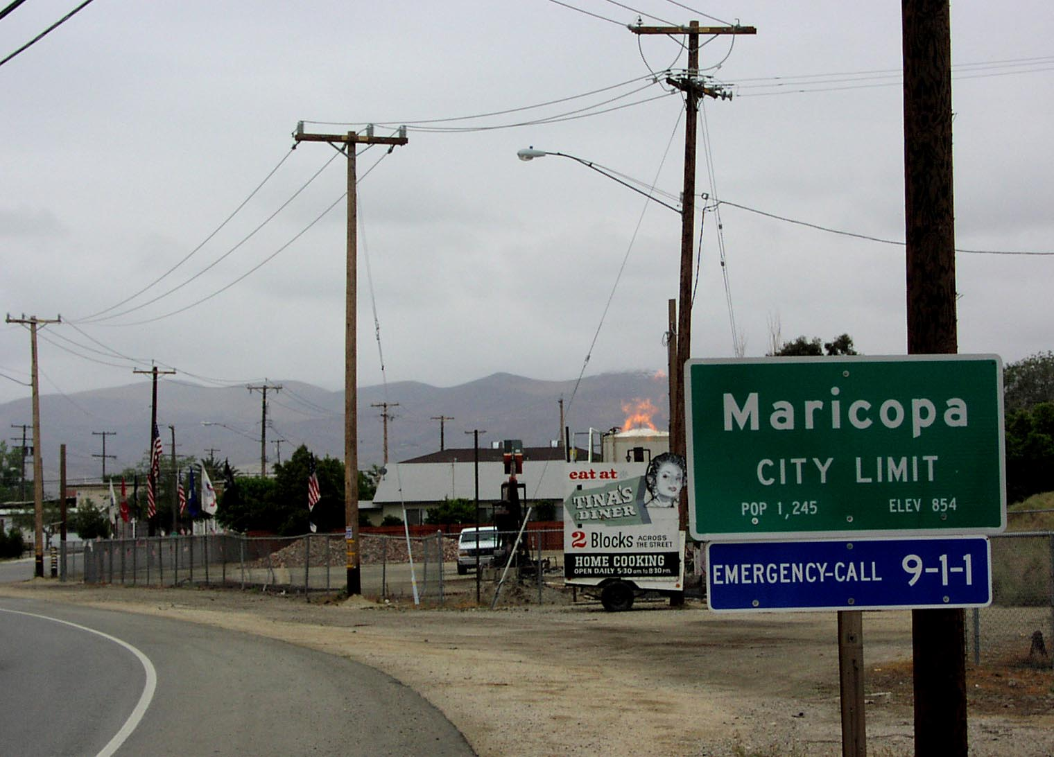 Maricopa, California, May 2008, photo by Antandrus; GFDL